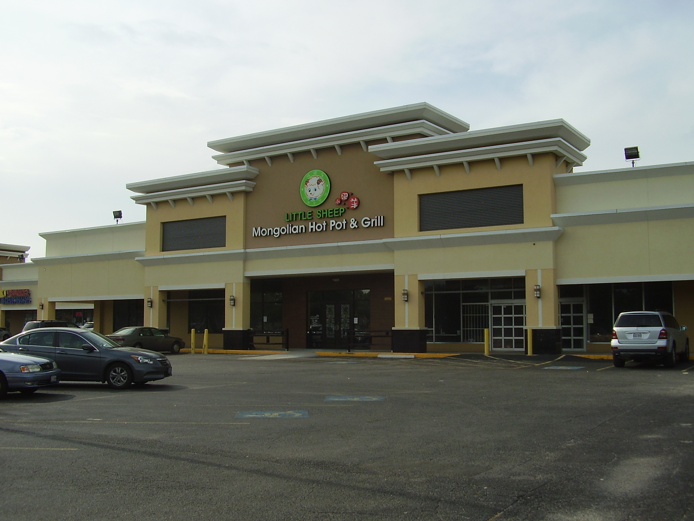 Little Sheep Hot Pot and Grill in Times Square, Chinatown, Houston